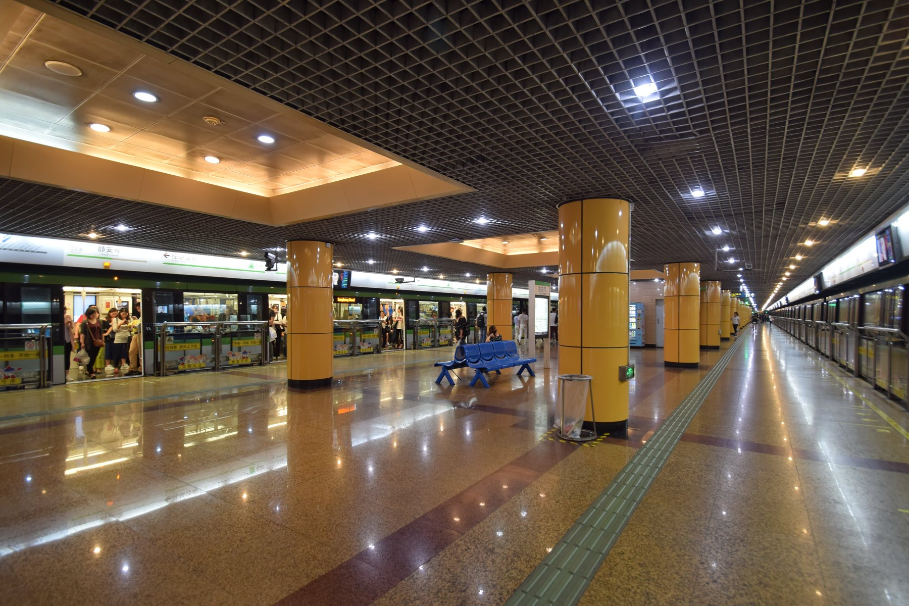 Line 2 Platform of Jing'an Temple Station, Shanghai Metro